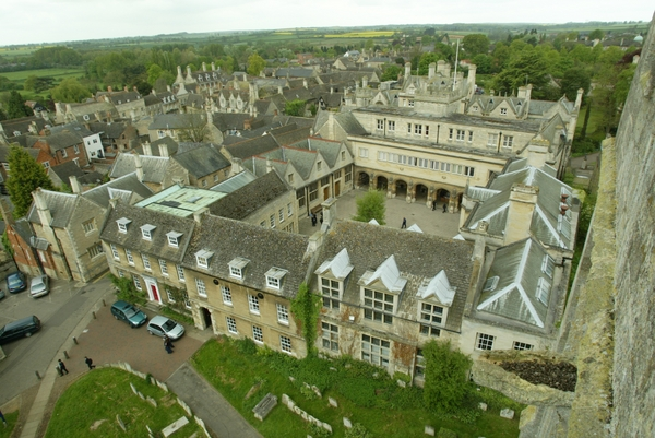 Oundle School clositers viewed from the spire of St. Peter's Church